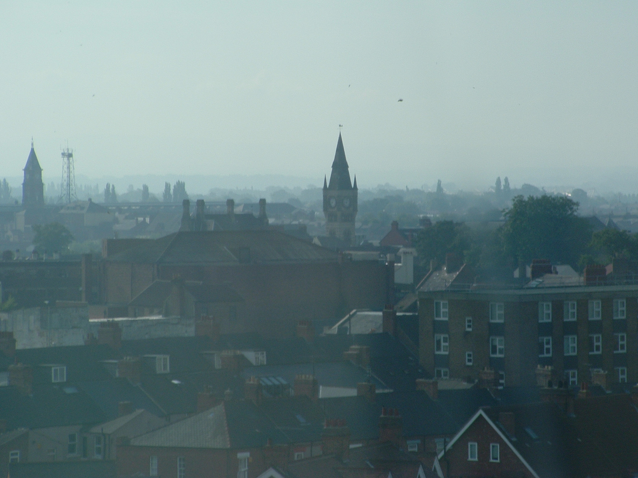 I Took this photo myself in 1986